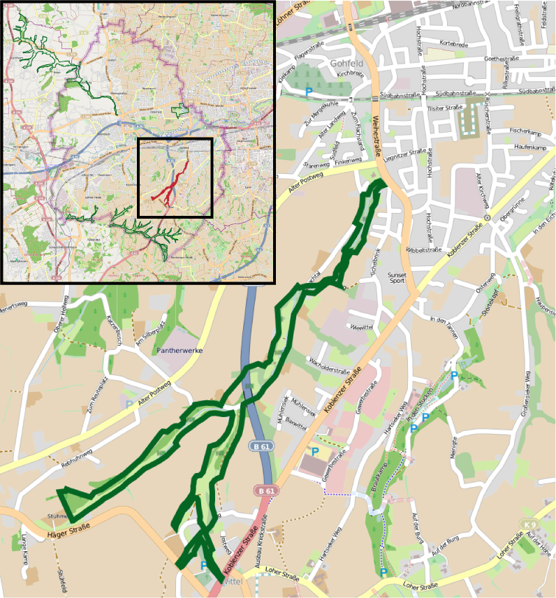 Löhne - Nature reserve Sudbachtal - overview map Number and borders of nature reserves are subject to frequent change. In order to facilitate reproduction of this map from openstreetmap, the following data is stored here: export boundaries: north: 52.201; west: 8.729; east: 8.773; south: 52.172; mapnik svg, scale 1:22.000 nature reserve boundary stroke weight 10.0; nature reserve stroke color: R 5, G 102, B 36; municipality border stroke weight: as found